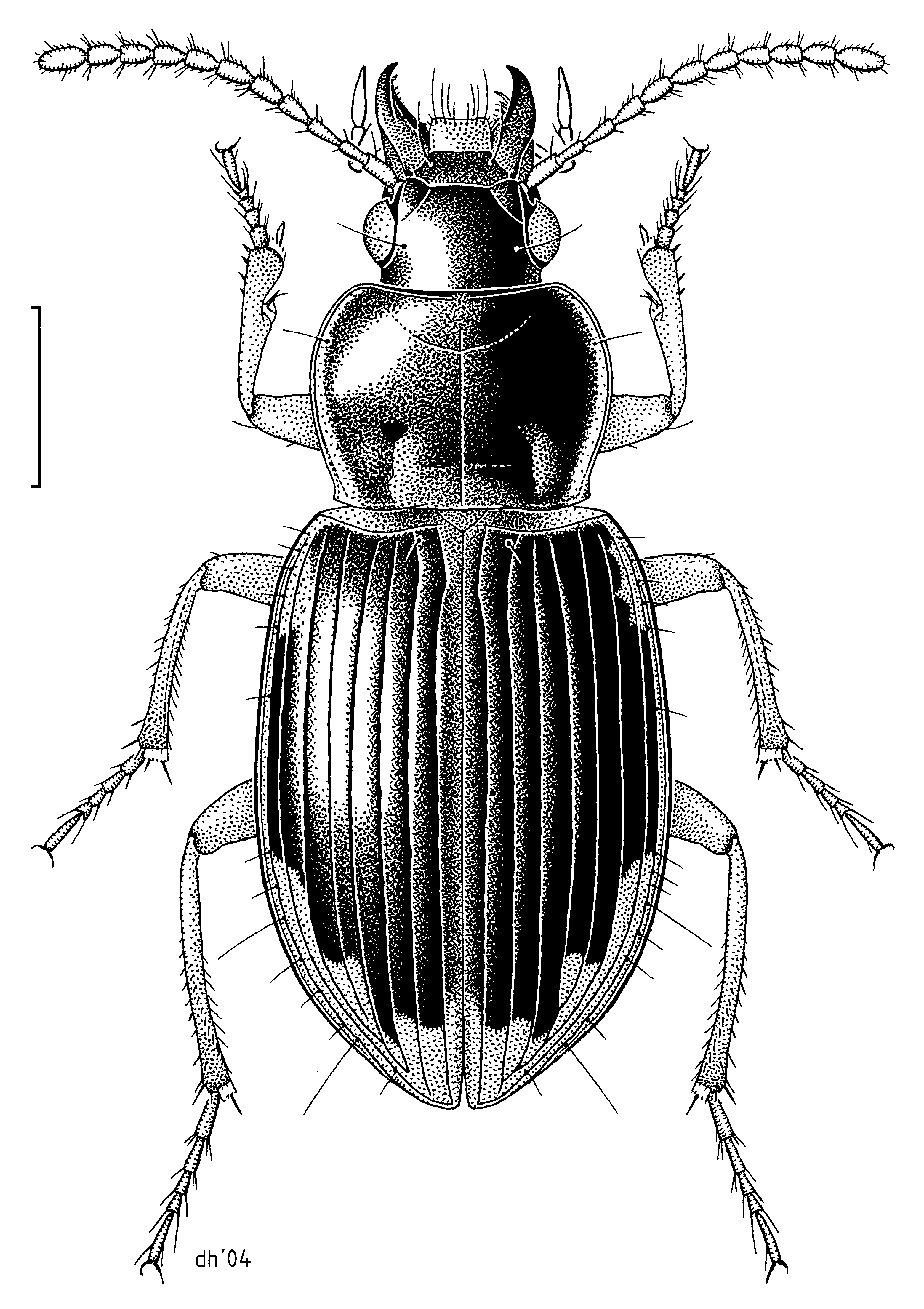 (Coleoptera: Carabidae) Lecanomerus sharpi illustrated by Des Helmore.